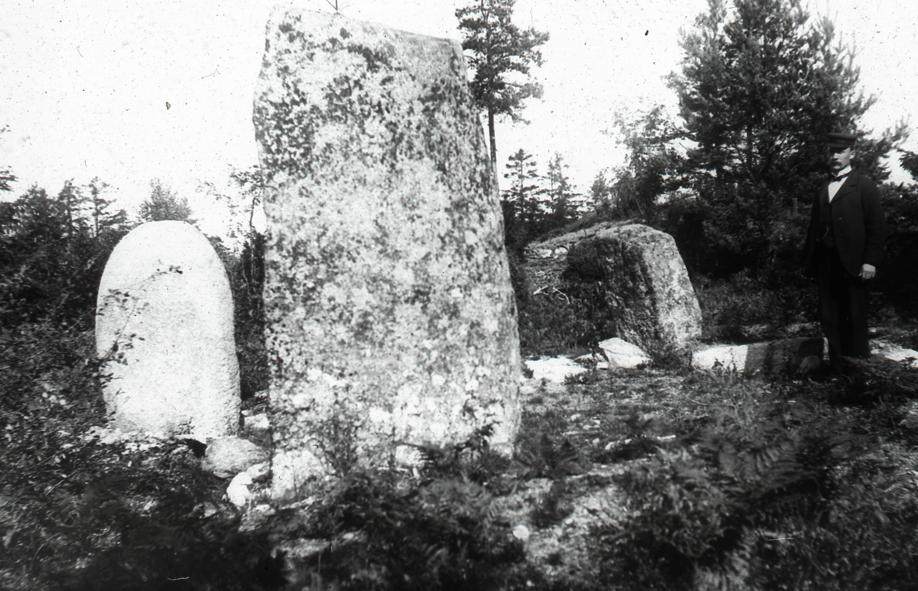 The "Valbysteinene" stone setting in Vestfold, Norway